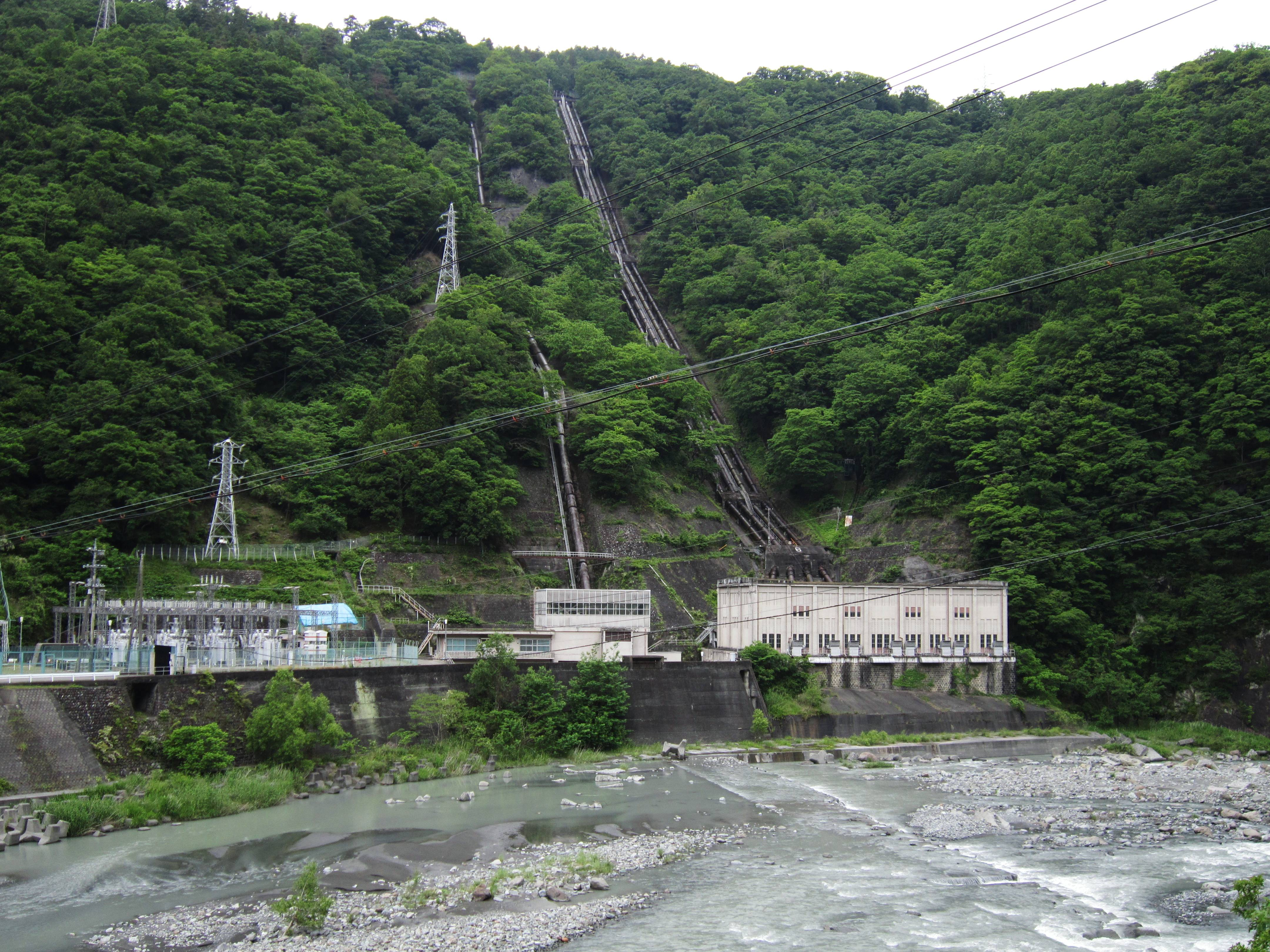 Hayakawa I power station.